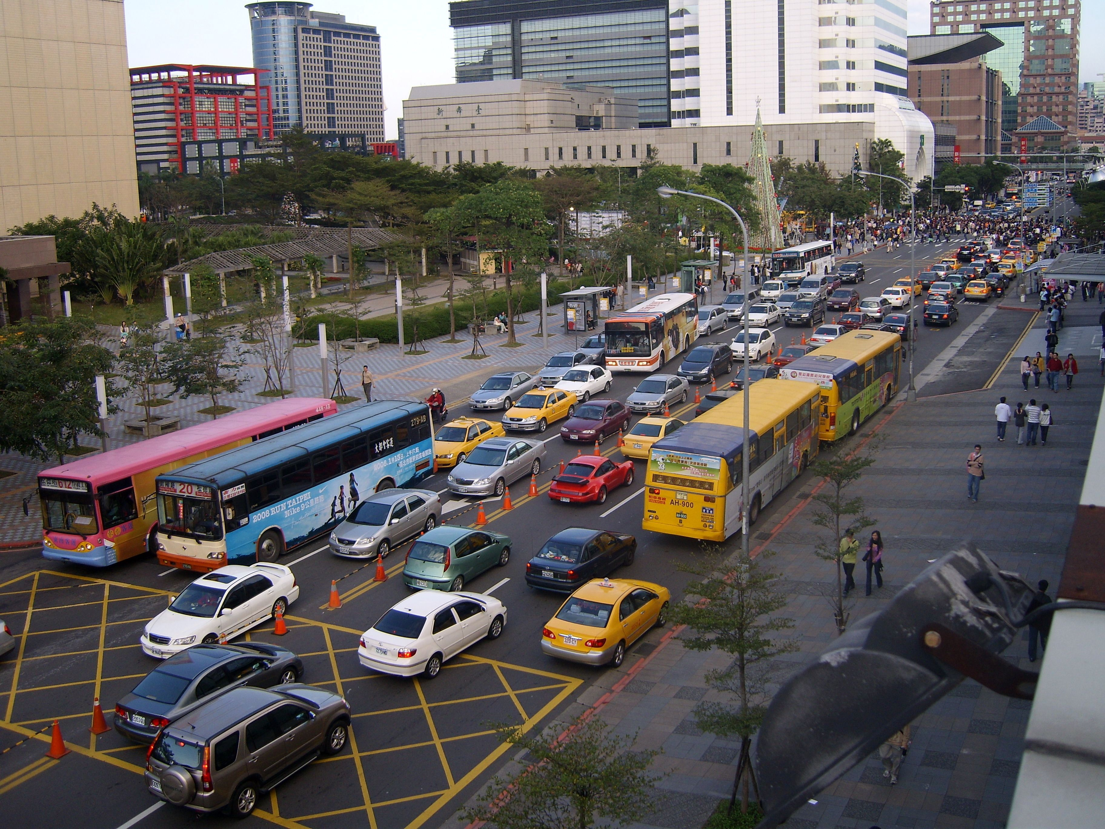 2007 Taipei IT Month: The traffic condition at last day.